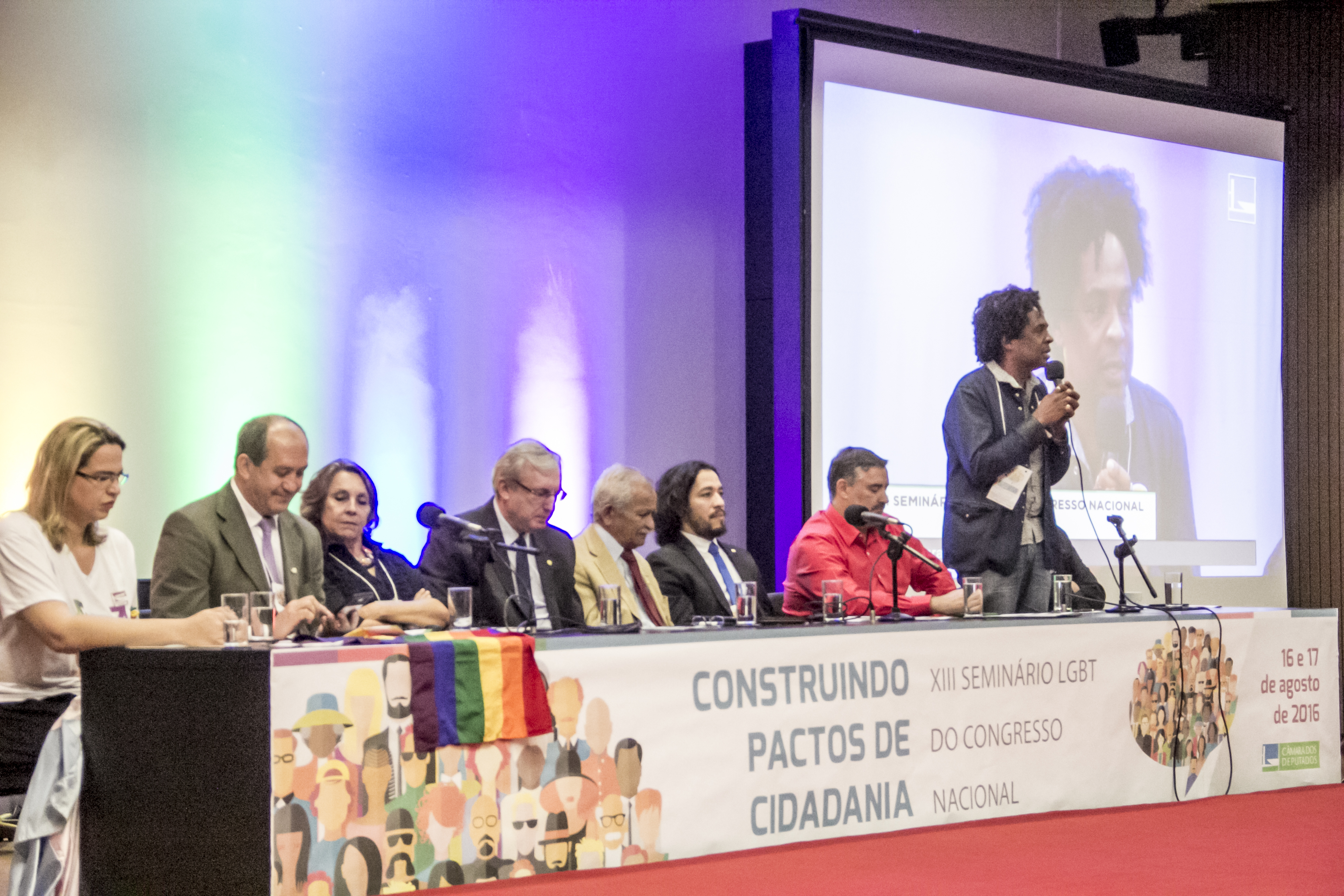 O próximo pode ser você! Depois de discutir o ódio como “emoção política” em sua edição do ano passado, o evento mais plural realizado na Câmara dos Deputados traz para o Parlamento novo enfoque para discutir a questão dos preconceitos e da intolerância com as diferenças. Com o tema “O próximo pode ser você”, o XIII Seminário LGBT do Congresso Nacional reúne ativistas, estudiosos, autoridades e representantes da sociedade civil organizada neste momento em Brasília, na Câmara dos Deputados. Identidade de gênero, LGBTfobia, difamação nas redes e ações para deter o preconceito são algumas dos temas do evento, que segue até amanhã (17). Pela manhã a abertura contou com As Bahias e a Cozinha Mineira cantando o hino nacional, o homem trans Lan Matos do IBRAT como mestre de cerimônia, e a presença do dep. Jean Wyllys, dep. Chico Lopes, dep. Chico D’Angelo, dep. Érika Kokay, Dep. Paulo Pimenta, movimentos sociais como a UNALGBT, MST, Fora do Eixo, UNE, Anavtrans, ABGLT, ArtGay, Levante Popular da Juventude, entre outros.